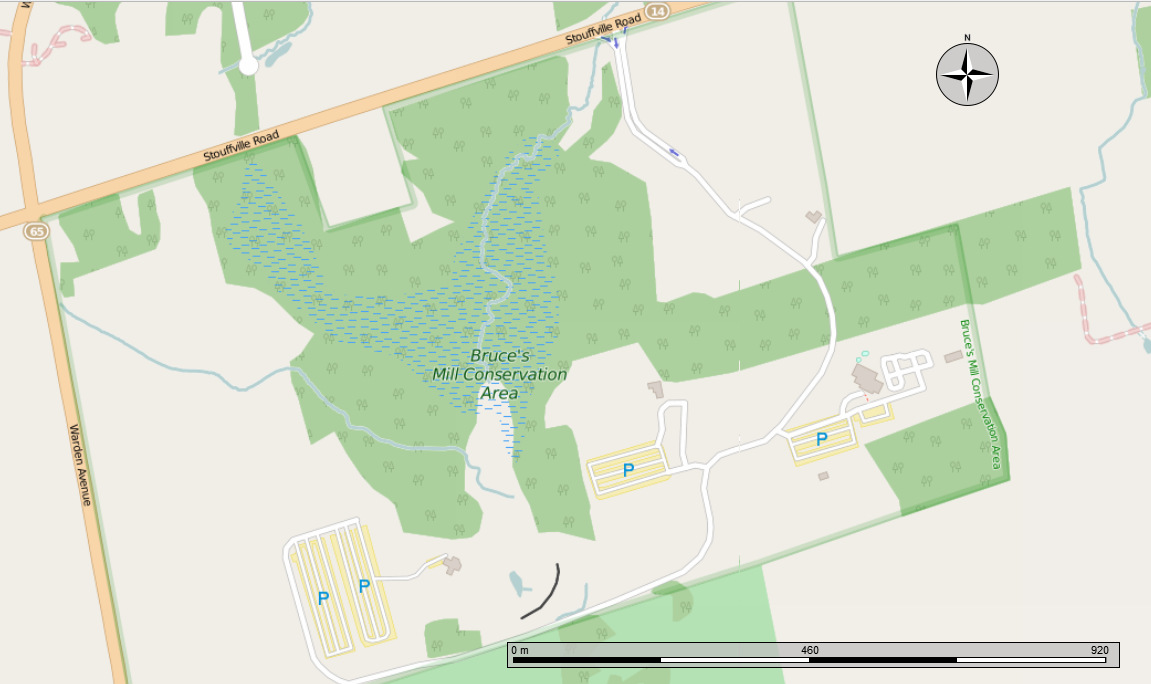 Open Street Map showing the Bruce's Mill Conservation Area in Stouffville. Bounded by Warden Avenue along the western boundary and Stouffville Road along the north. Cropped from the Marble Program.